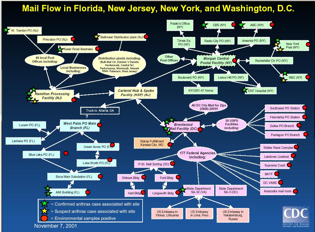 CDC anthrax mail flow diagram